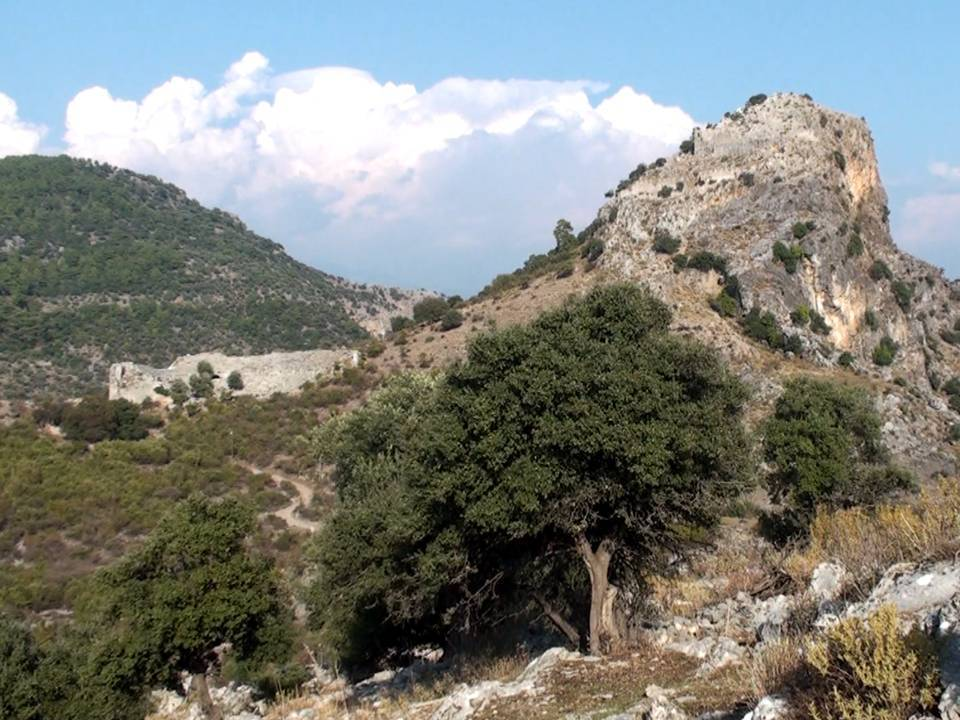 Acropolis and amphitheatre of Kaunos seen from Heraklion fortress